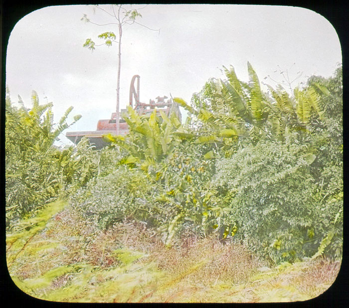 Jungle and equipment or machinery abandoned by the French. 1912. Name of Expedition: Panama Canal Zone Participants: Seth E. Meek, Samuel F. Hildebrand Expedition Start Date: 1911 Expedition End Date: 1912 Purpose or Aims: Zoology (Fishes) Location: Central America, Panama, Chagres River near Colon, Atlantic Ocean side Original material: Hand-colored Lantern Slide Digital Identifier: CSZ33971c Learn more about The Field Museum's